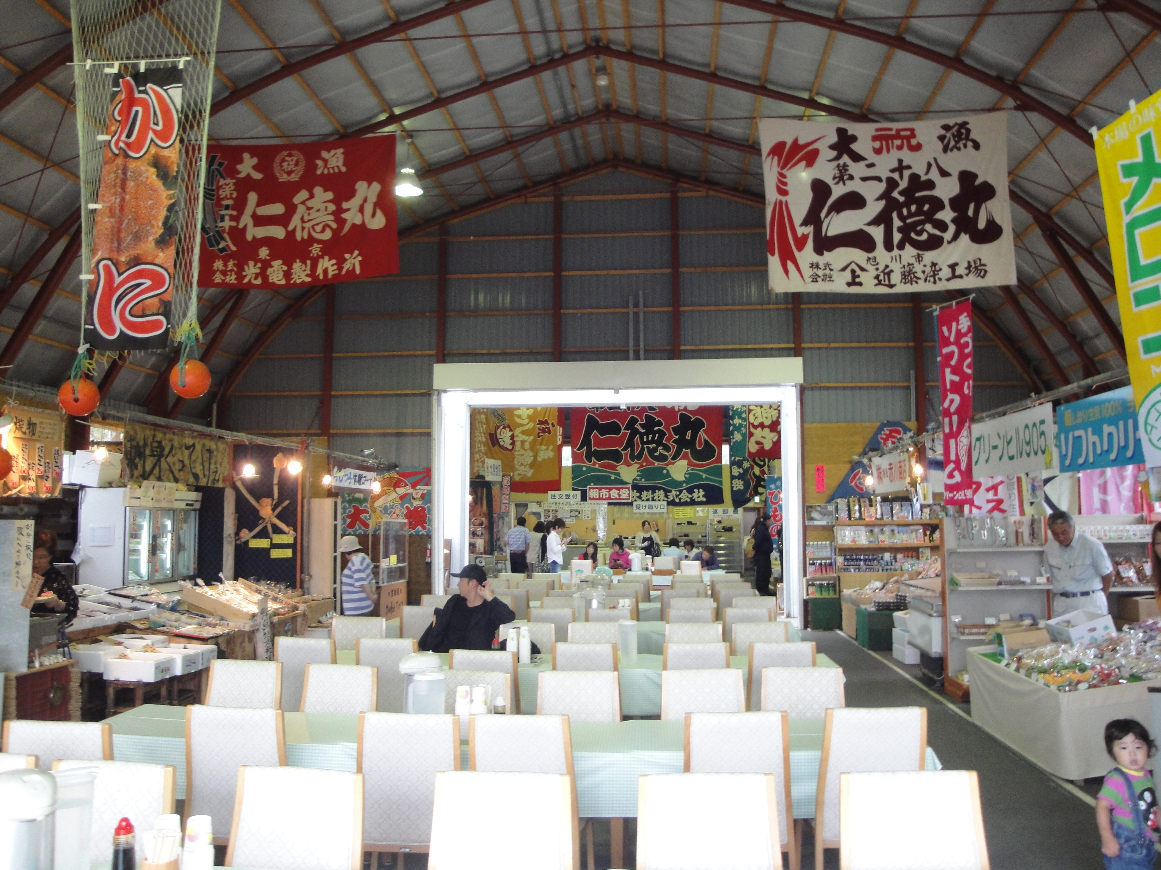 Internal of Abashiri Wonder Morning Market in Abashiri, Hokkaido, Japan. 中文（台灣）: 網走感動朝市會場內部